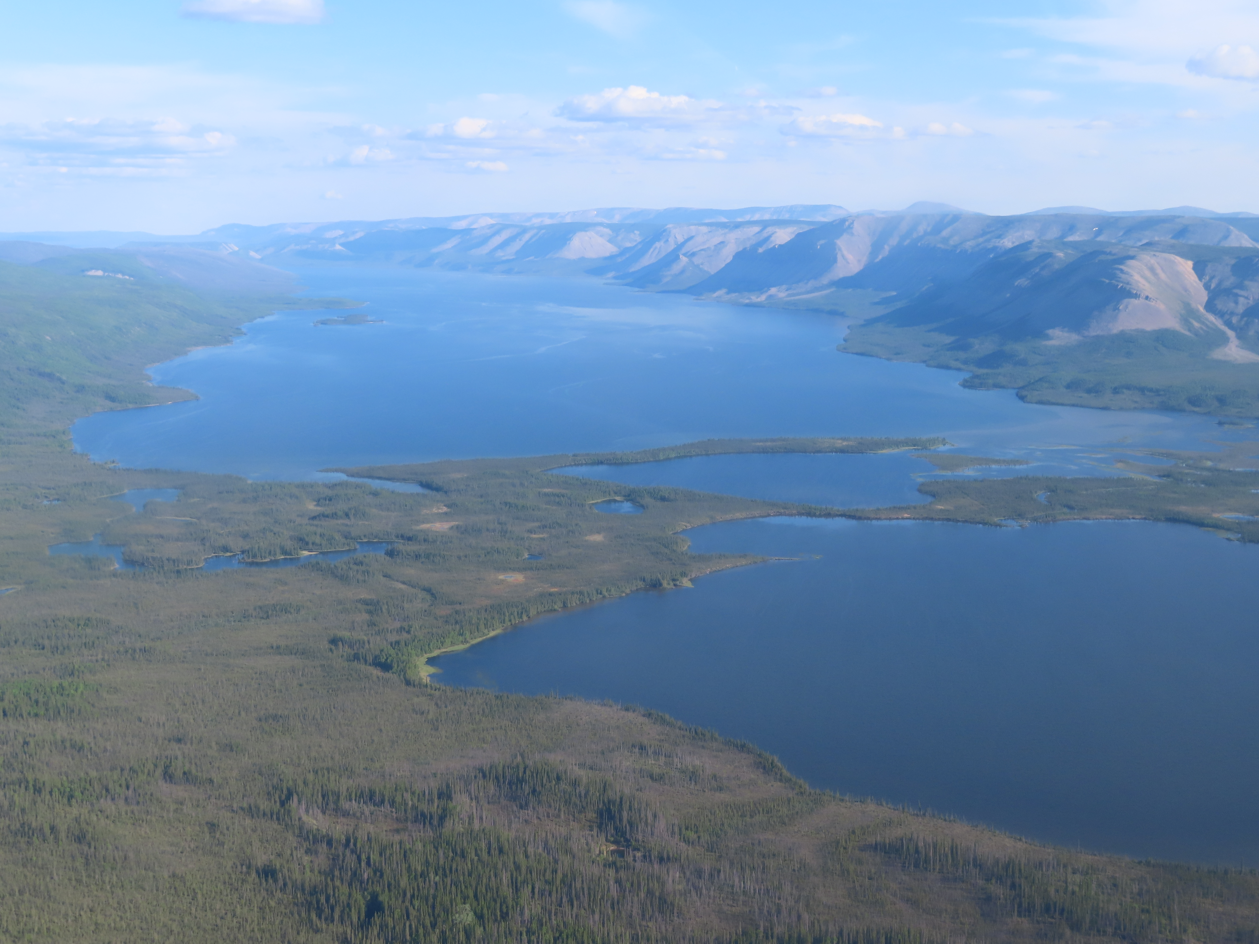 The Norman Range mountains rise above Lennie (near) and Kelly (far) Lakes near the Town of Norman Wells, Northwest Territories, Canada.